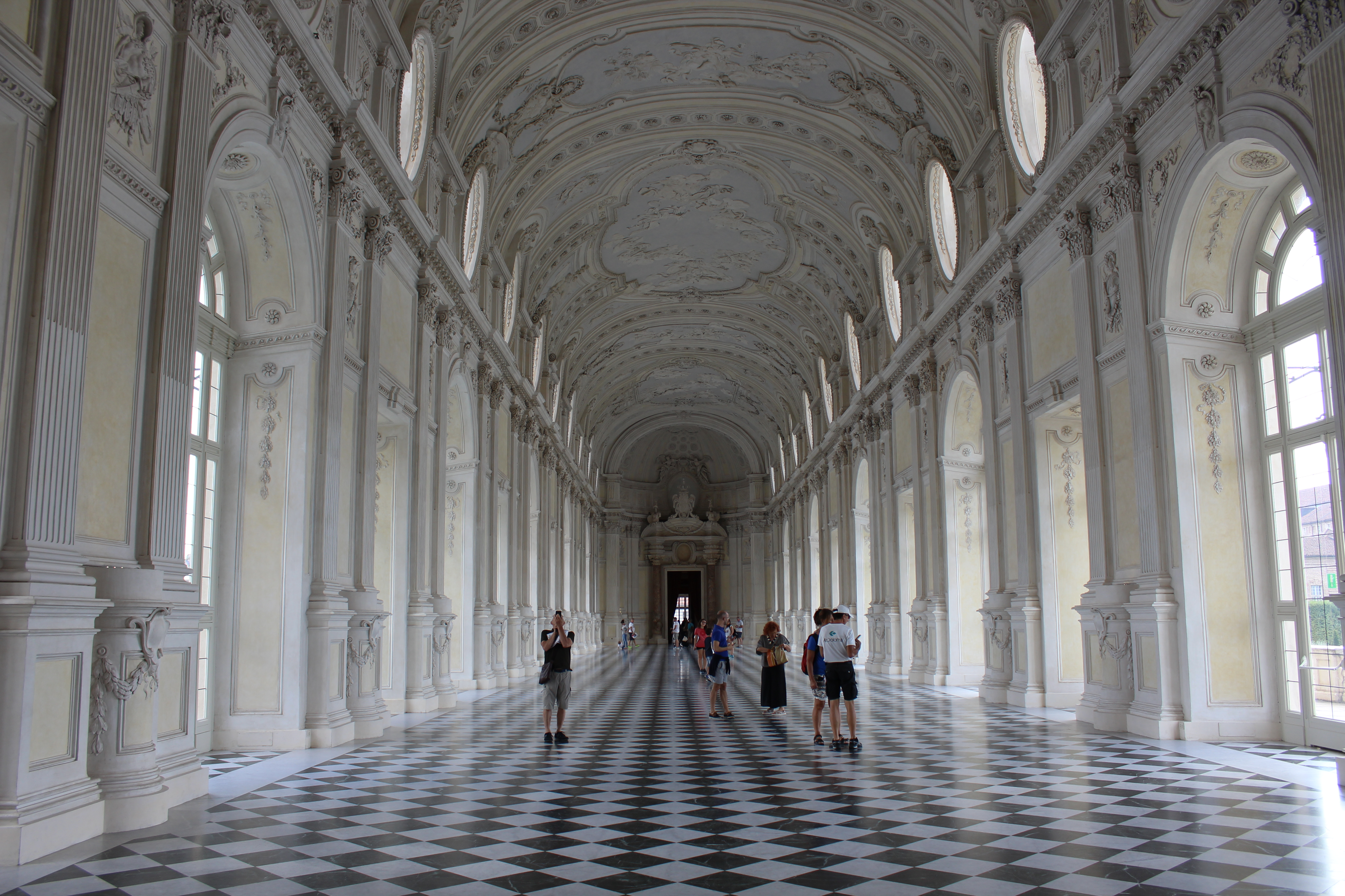 I took this picture inside the main room of the Palace of Venaria (Italian: Reggia di Venaria Reale), very close to Turin in Piedmont, Italy.